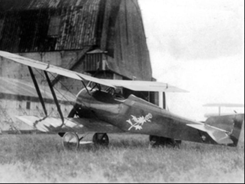 Hanriot-Dupont 1 of 9 Squadron of the Aviation Militaire Belge